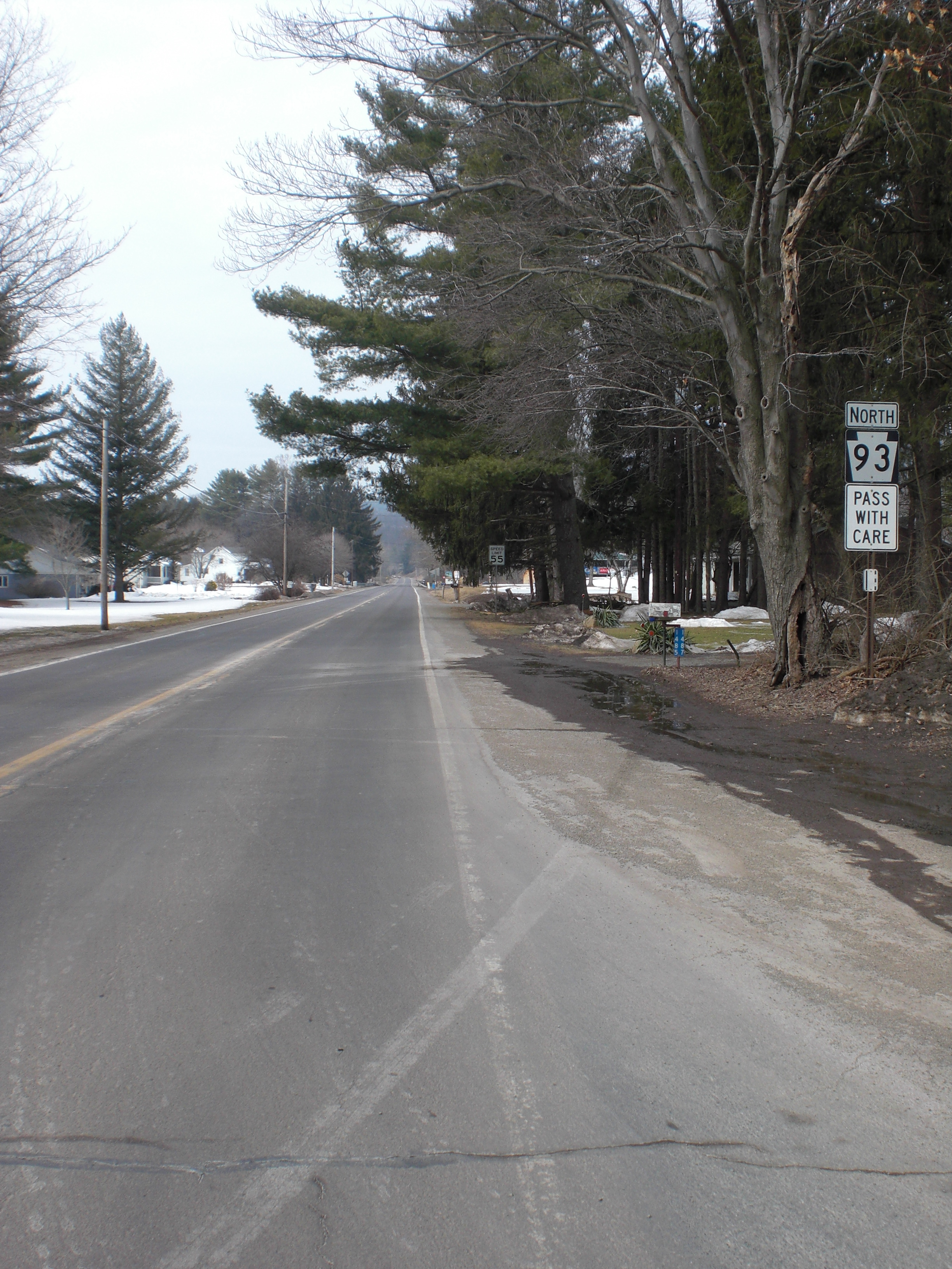 Pennsylvania Route 93 looking northbound in Briar Creek Township, Columbia County